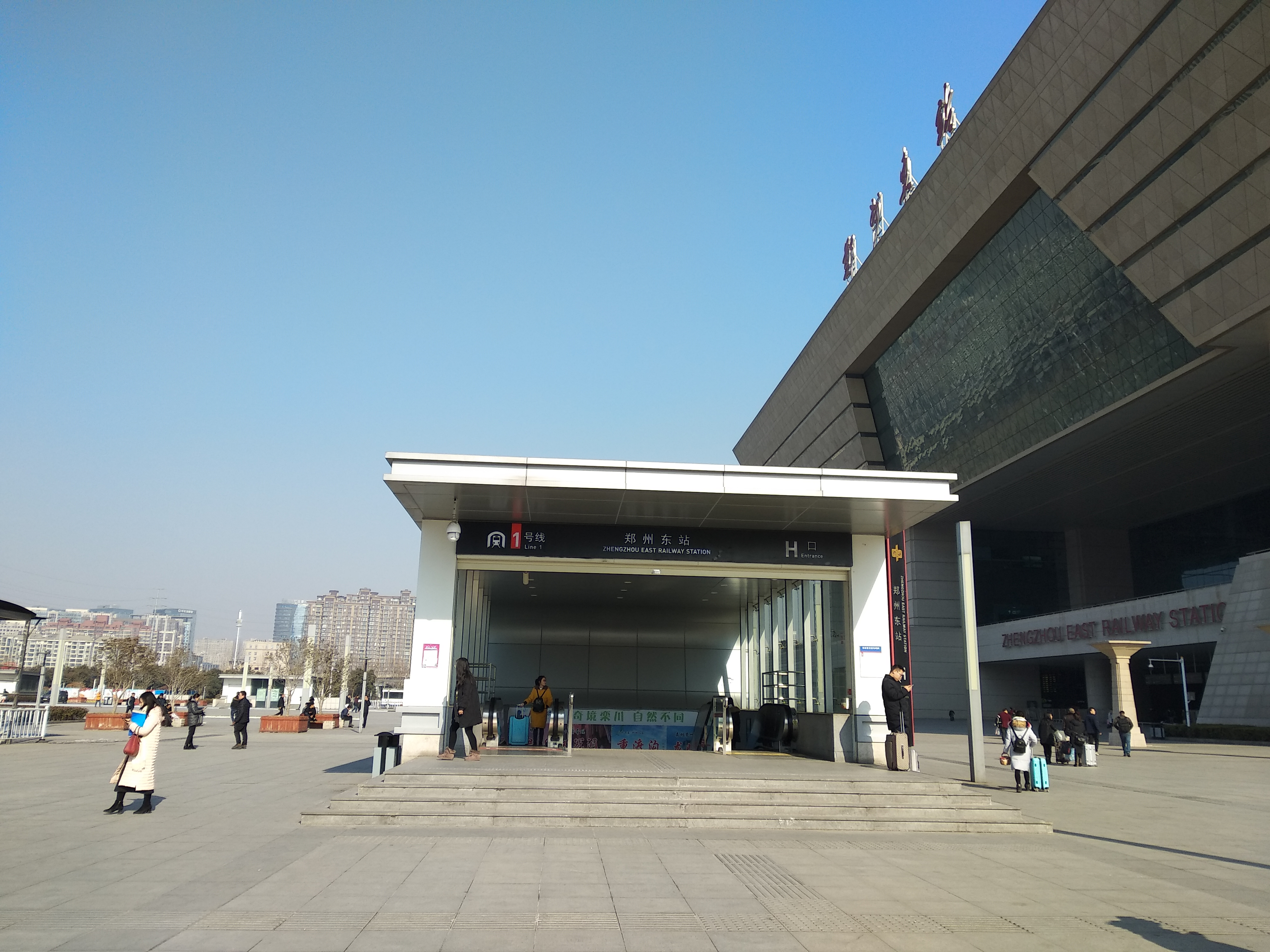 This station will be a transfer station of Zhengzhou Metro Line 1 and Line 5 in a few years. The building of the High-speed Railway Station is on the right.